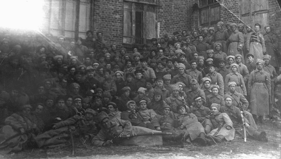 Veterans of Grigory Kotovski's Bolshevik partisan units reunited for a conference in Russia or Ukraine, 1922. According to author Ya. G. Babchuk (Спогади про Хотинське повстання, 2011), the image also includes two Ukrainian participants in the Khotin Uprising of early 1919, namely Ya. Barchuk and P. Oliynyk.